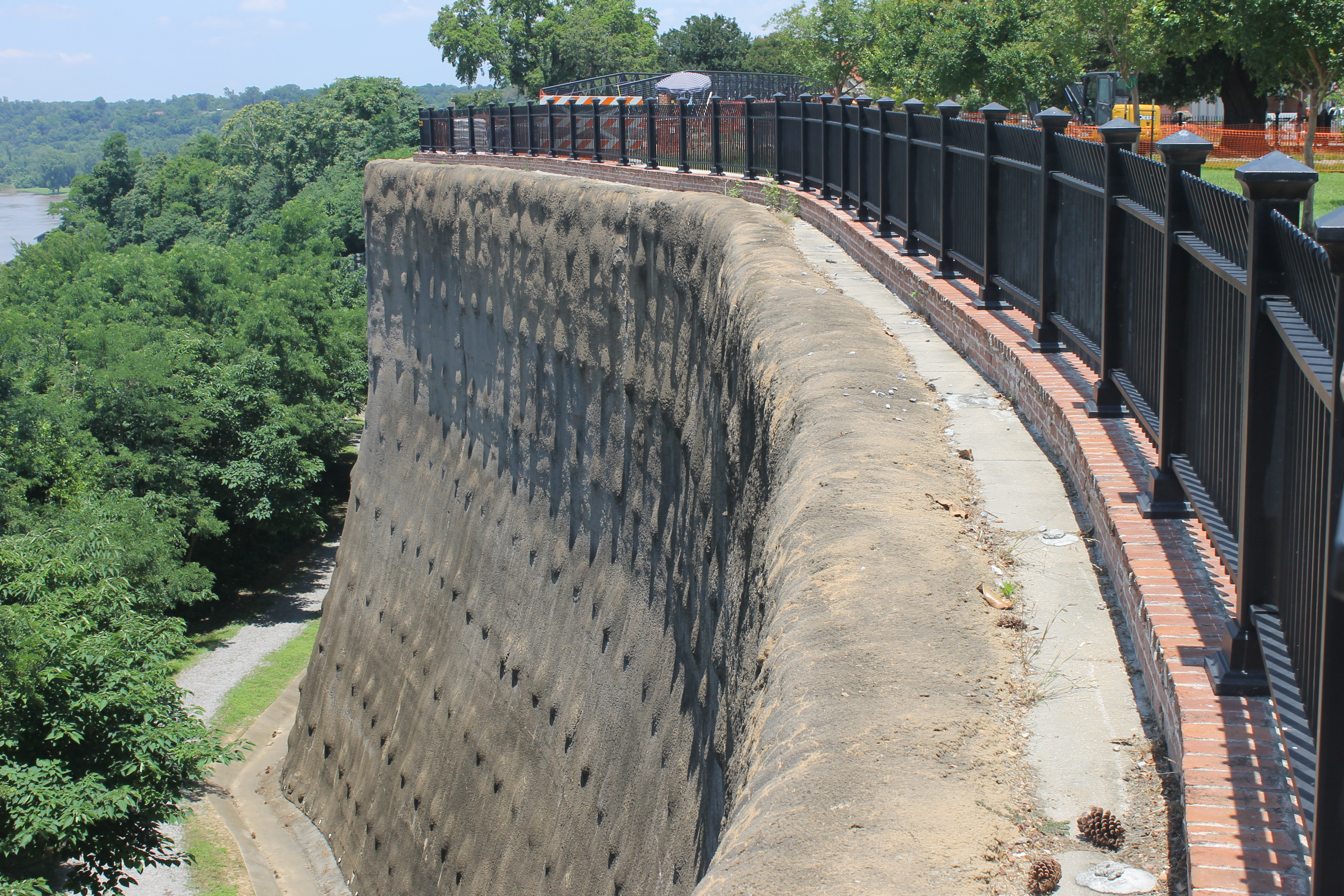 Stone wall protects Natchez, MS, from backwater flooding of the Mississippi River